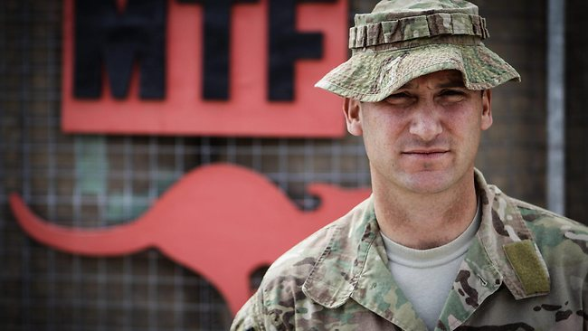 Photo of LTCOL Kahlil Fegan MTF-4 to be used for